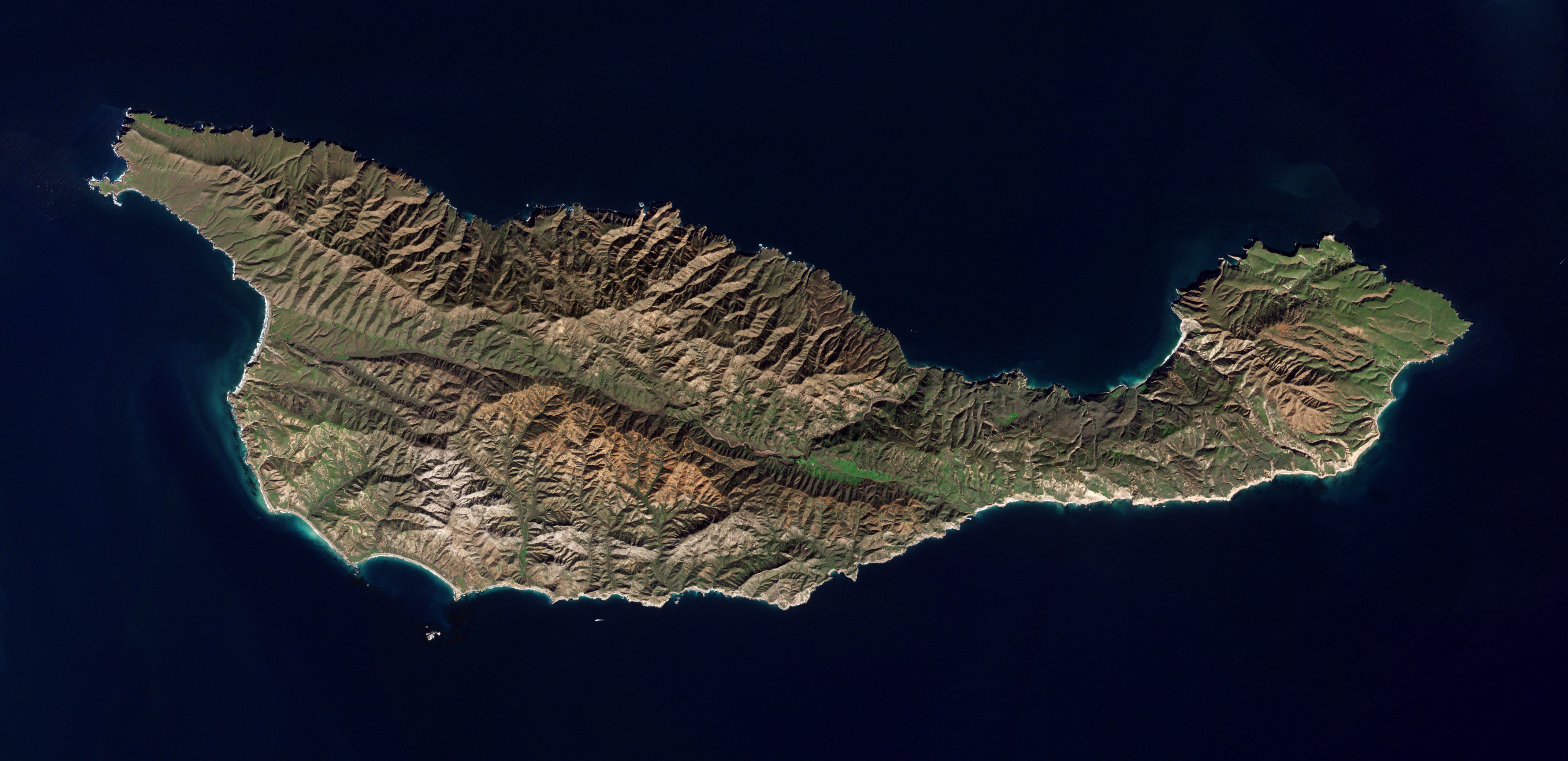 Date: 2019-02-11 Sensor: MSI on Sentinel-2B Resolution: 10m RGB Composites: True color, Band 4-3-2